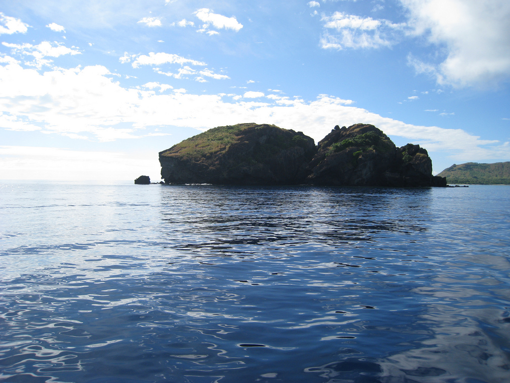 These islands were the setting for some famous movies in paradise, including The Blue Lagoon and Cast Away.